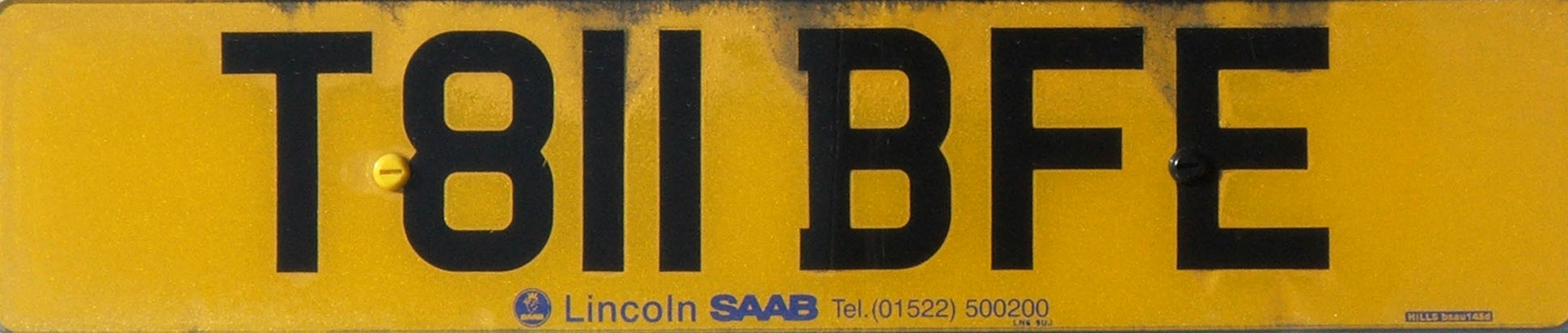 Vehicle licence plate from the United Kingdom as seen in 2007.